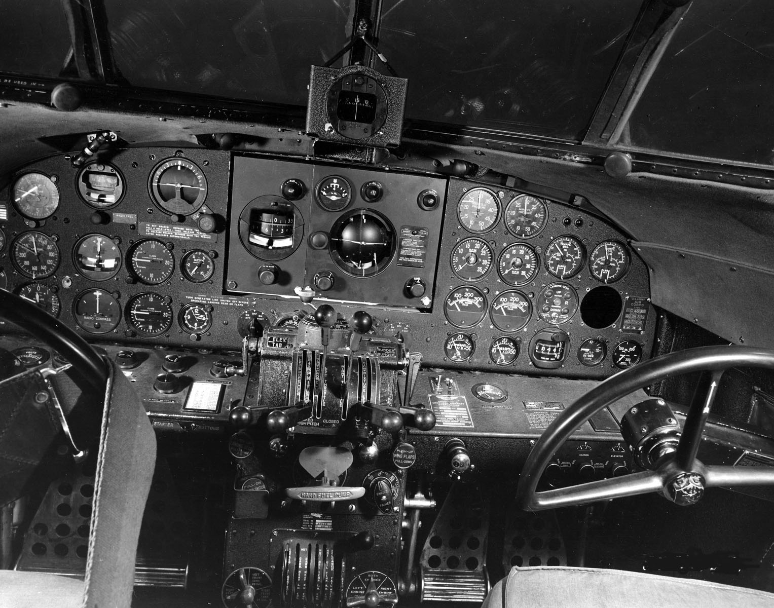 Lockheed C-40A cockpit (S/N 38-582) taken on Dec. 23, 1942, after conversion to C-40A standards. (U.S. Air Force photo)